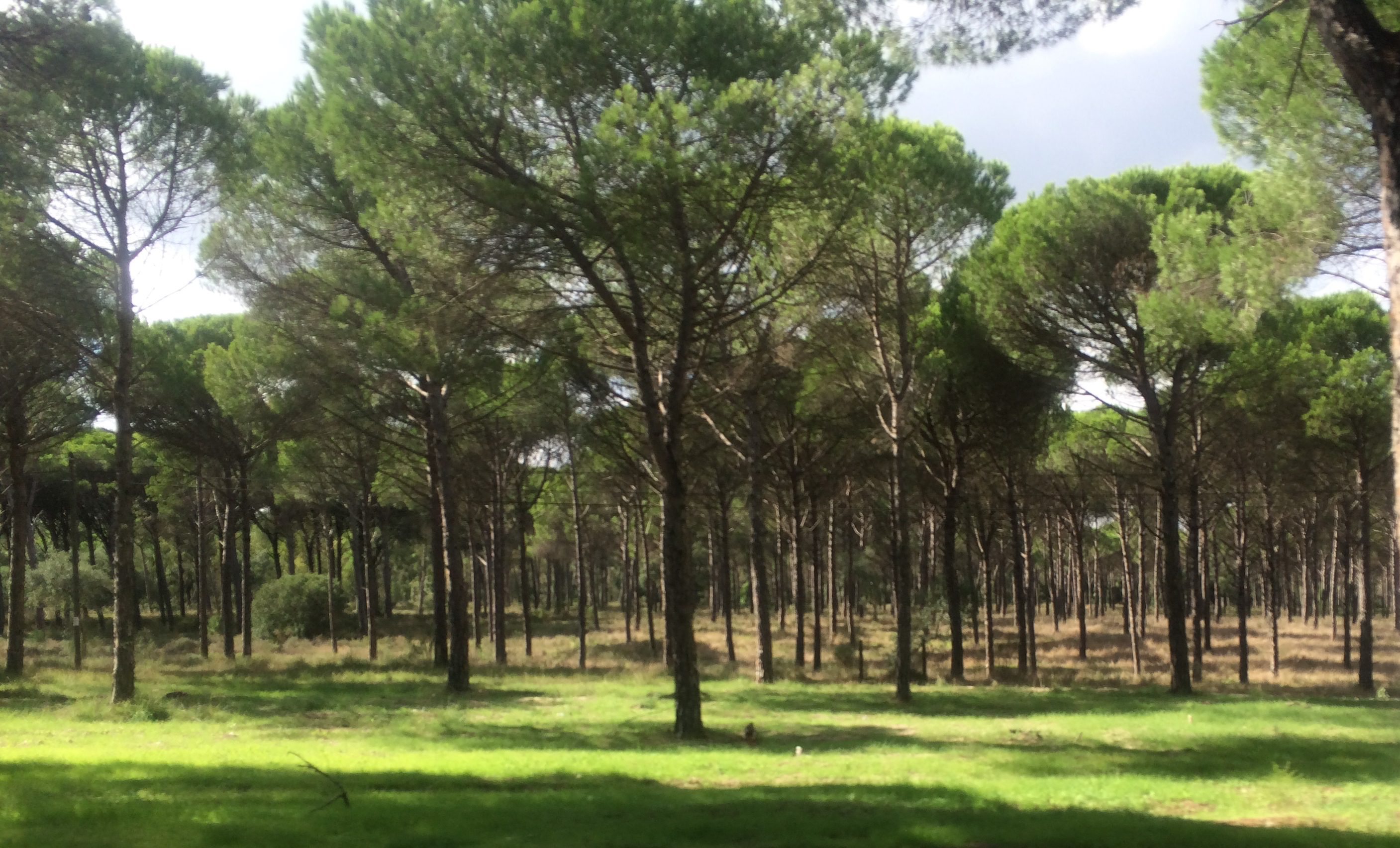 Typical woodland, Alentejo, Portugal